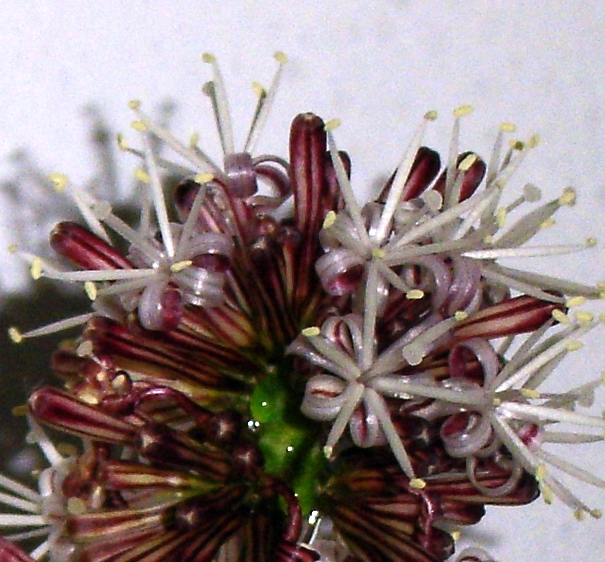 Dracaena flower